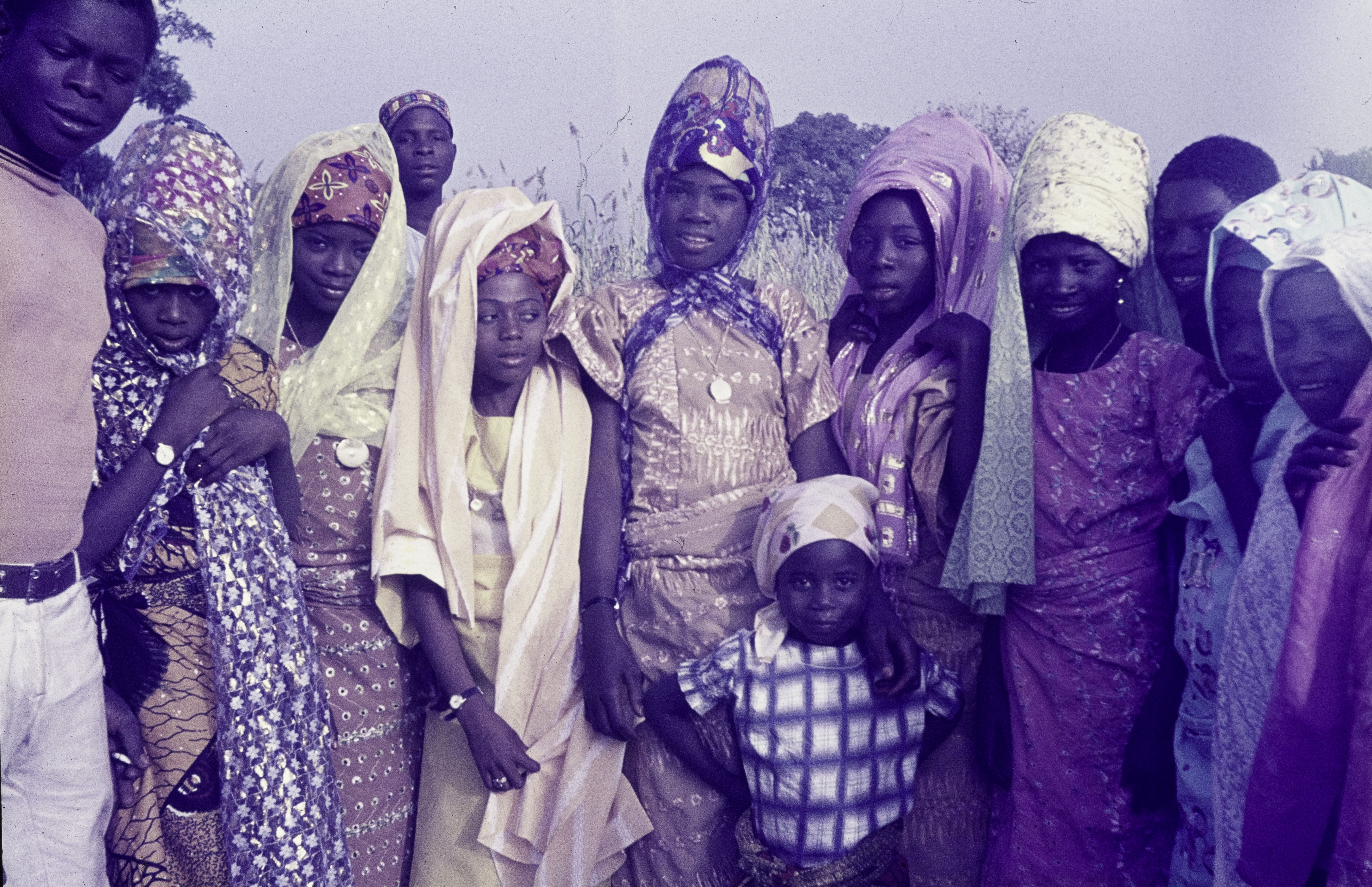 Toro Teachers College. Polygamy. Driver (in the background) marries his third wife. His women wear a pendant around the neck. Friends, another man and a child. A Nigerian wedding, with guests wearing special similar clothes.